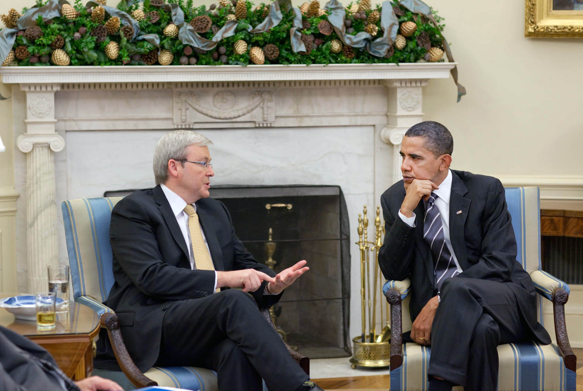 President Barack Obama meets Prime Minister Kevin Rudd of Australia in the Oval Office, Nov. 30, 2009, to discuss a range of issues including Afghanistan and climate change.